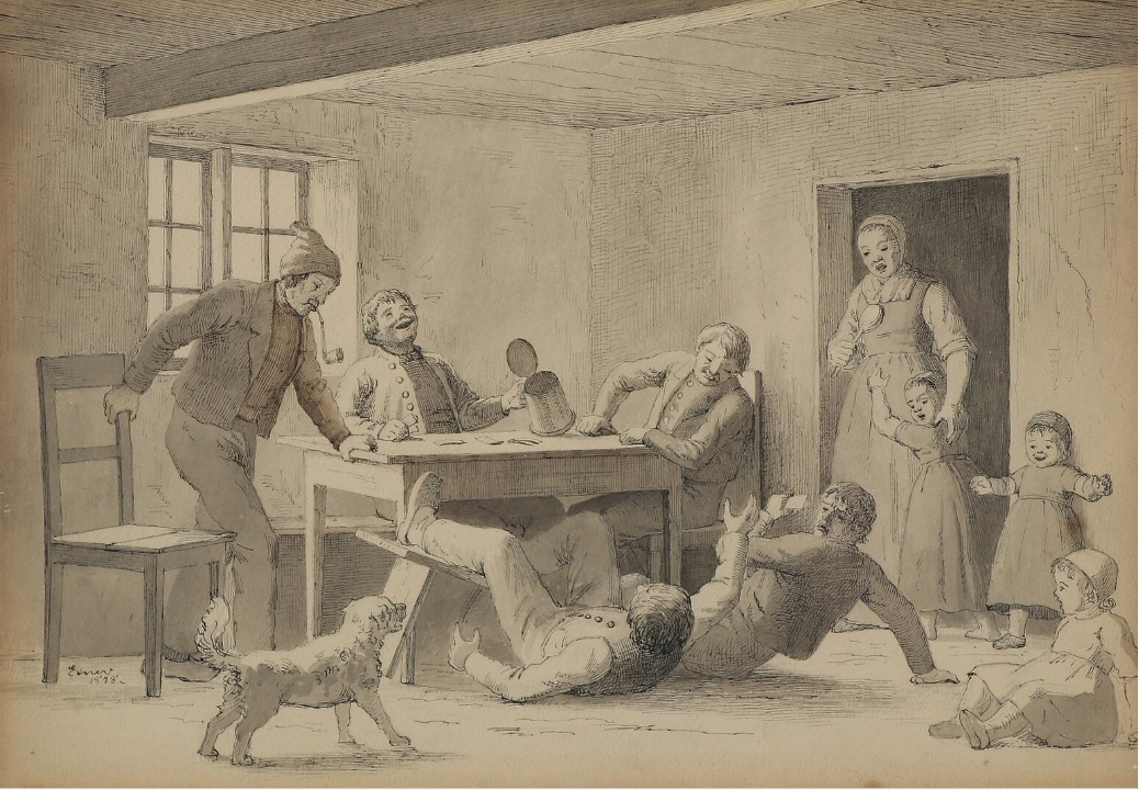 Julius Exner. Funny farmers. 1878